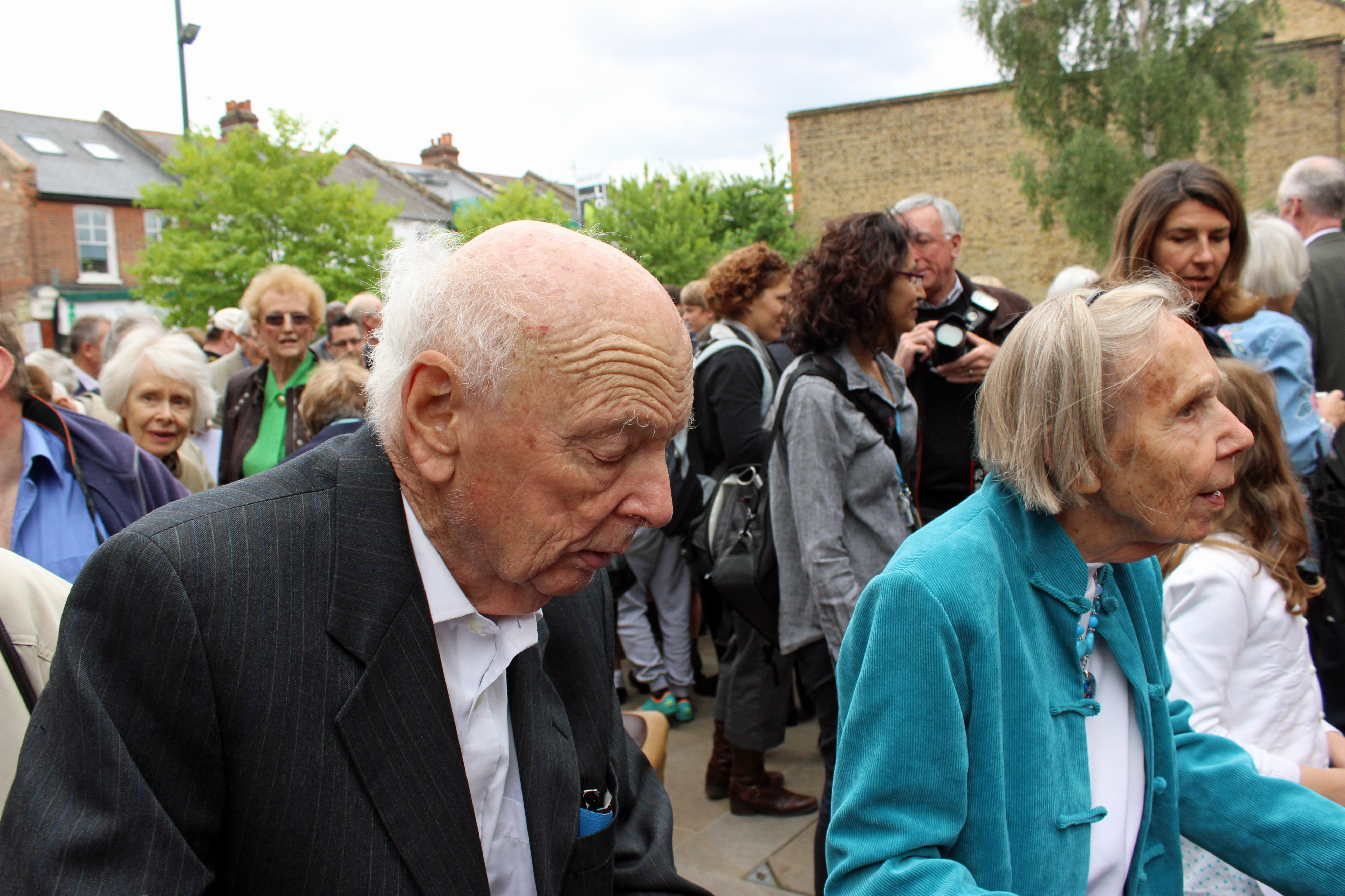 Mary Lee Woods (12 March 1924 – 29 November 2017) was an English mathematician and computer programmer who worked in a team that developed programs in the School of Computer Science Mark 1, Ferranti Mark 1 and Mark 1 Star computers. Conway Berners-Lee (born 10 September 1921) is an English mathematician and computer scientist who worked as a member of the team that developed the Ferranti Mark 1, the world's first commercial stored program electronic computer. They met and married while working at Ferranti. Sir Tim Berners-Lee is one of their children.